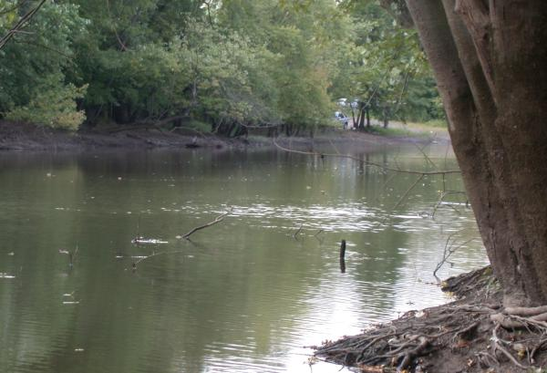 Passaic River in eastern Essex County